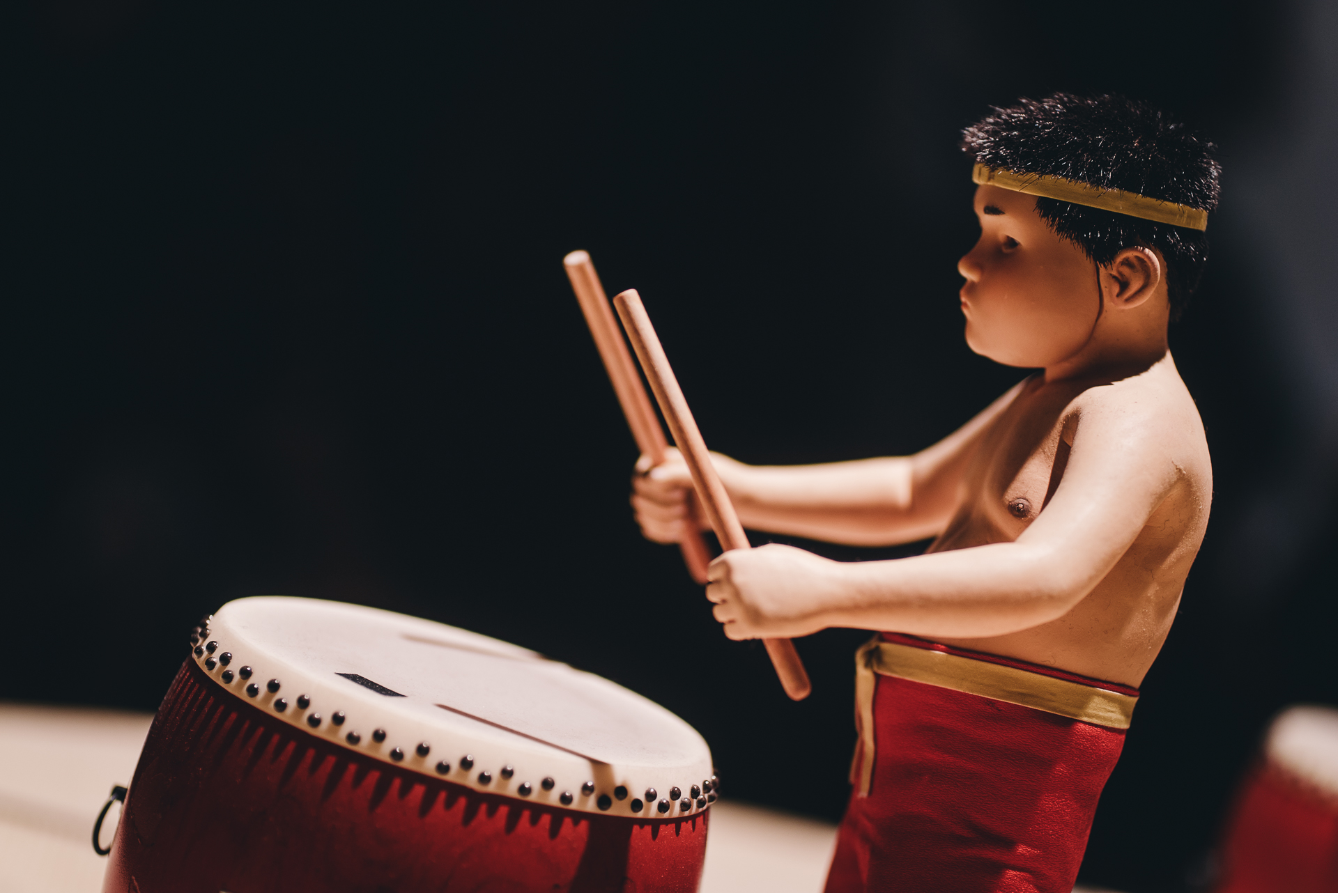 Sets from the film Isle of Dogs